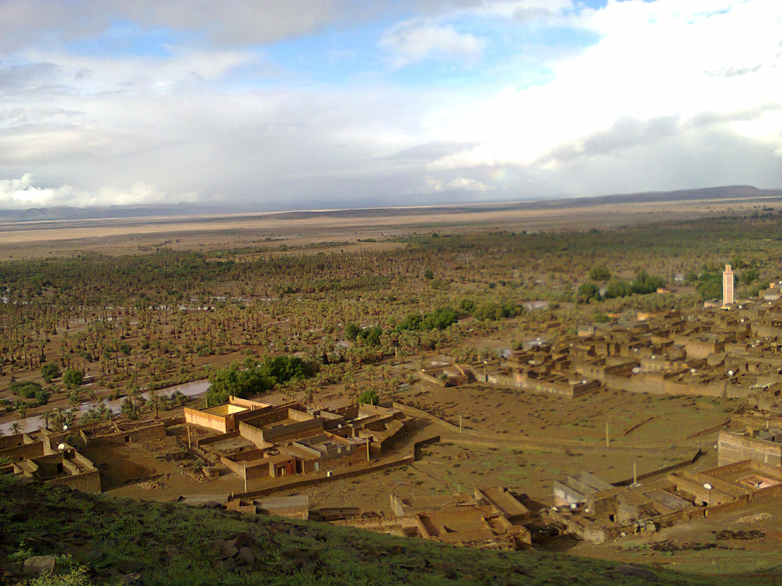 Tissint, Tata Province